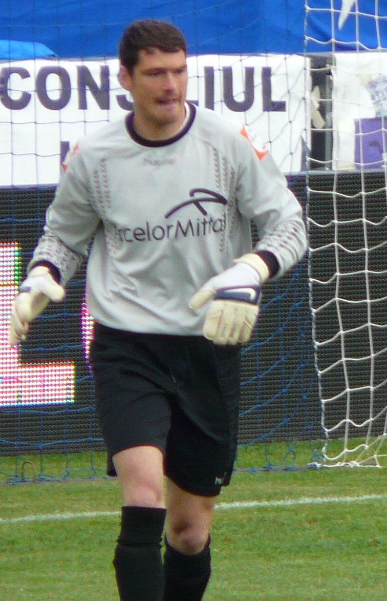 Branko Grahovac in May 2010, during Otelul - Vaslui